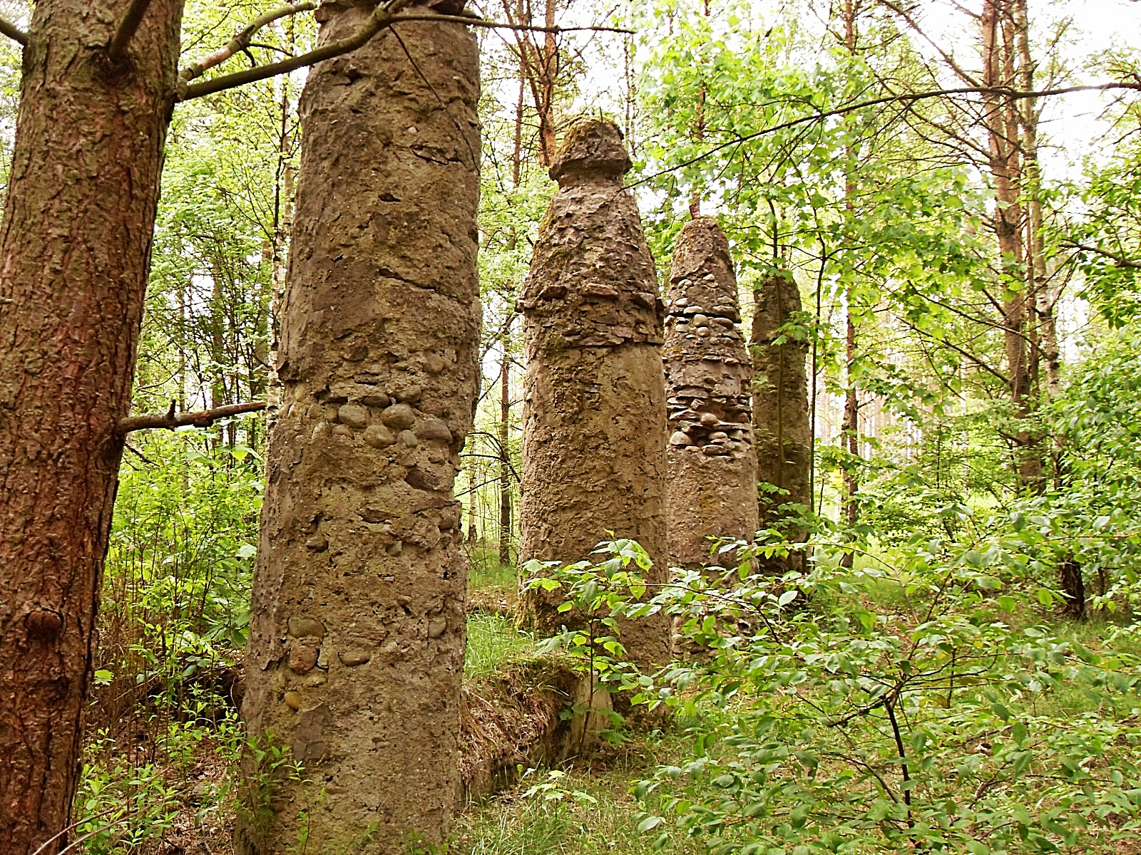 Pillars forgotten gardens in Płocicznie